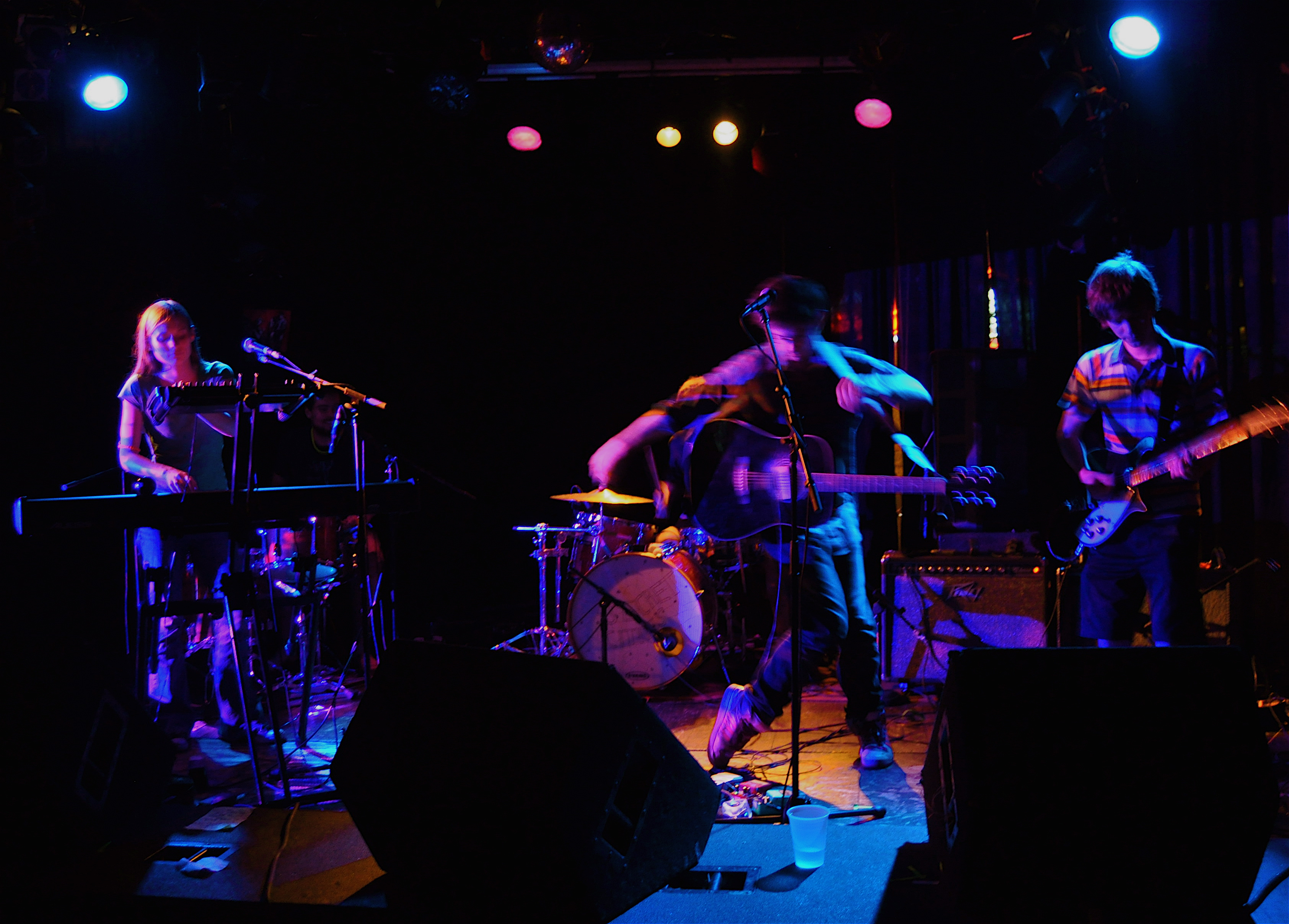 Flickr Tags: Secret Cities Record Bar Kansas City Missouri concert music rock Pink Graffiti June 27 2010 purple blue bright stage.